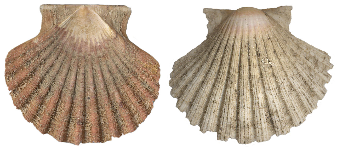 My own scan of a juvenile Pecten jacobaeus. Left valve is left.